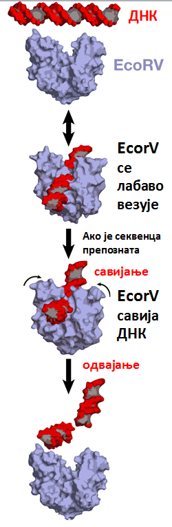 This is Serbian translation of File:EcoRV cleaving DNA.png